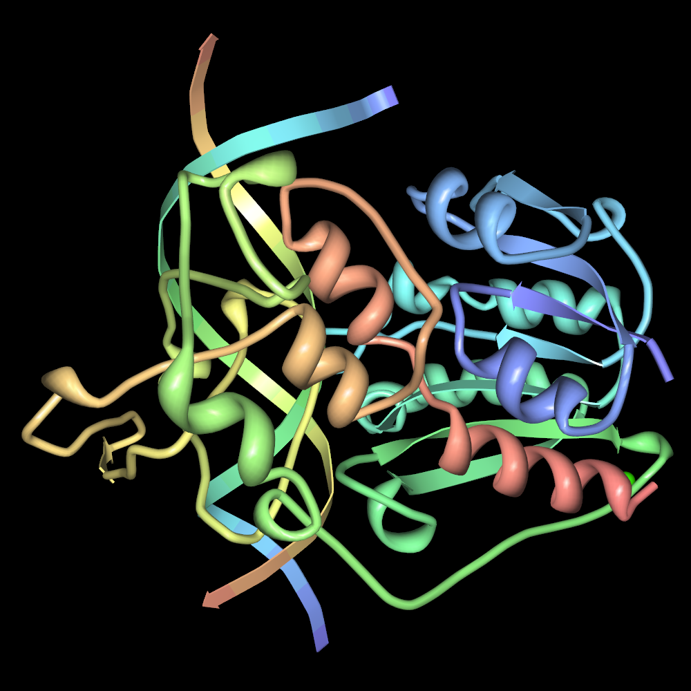 The crystal structure of HaeIII methyltransferase convalently complexed to DNA: an extrahelical cytosine and rearranged base pairing. Reinisch, K.M., Chen, L., Verdine, G.L., Lipscomb, W.N